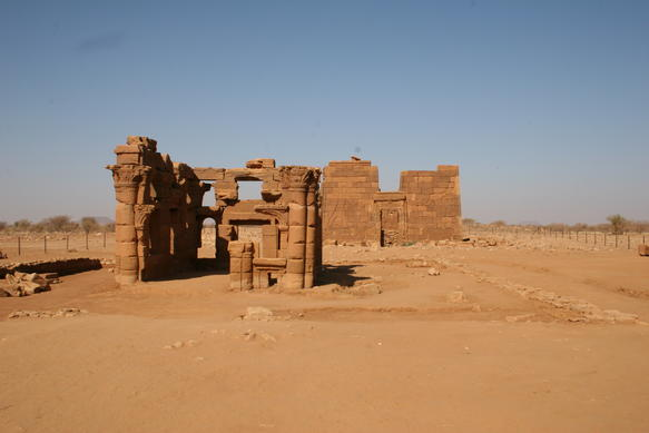 Temples of Naqa